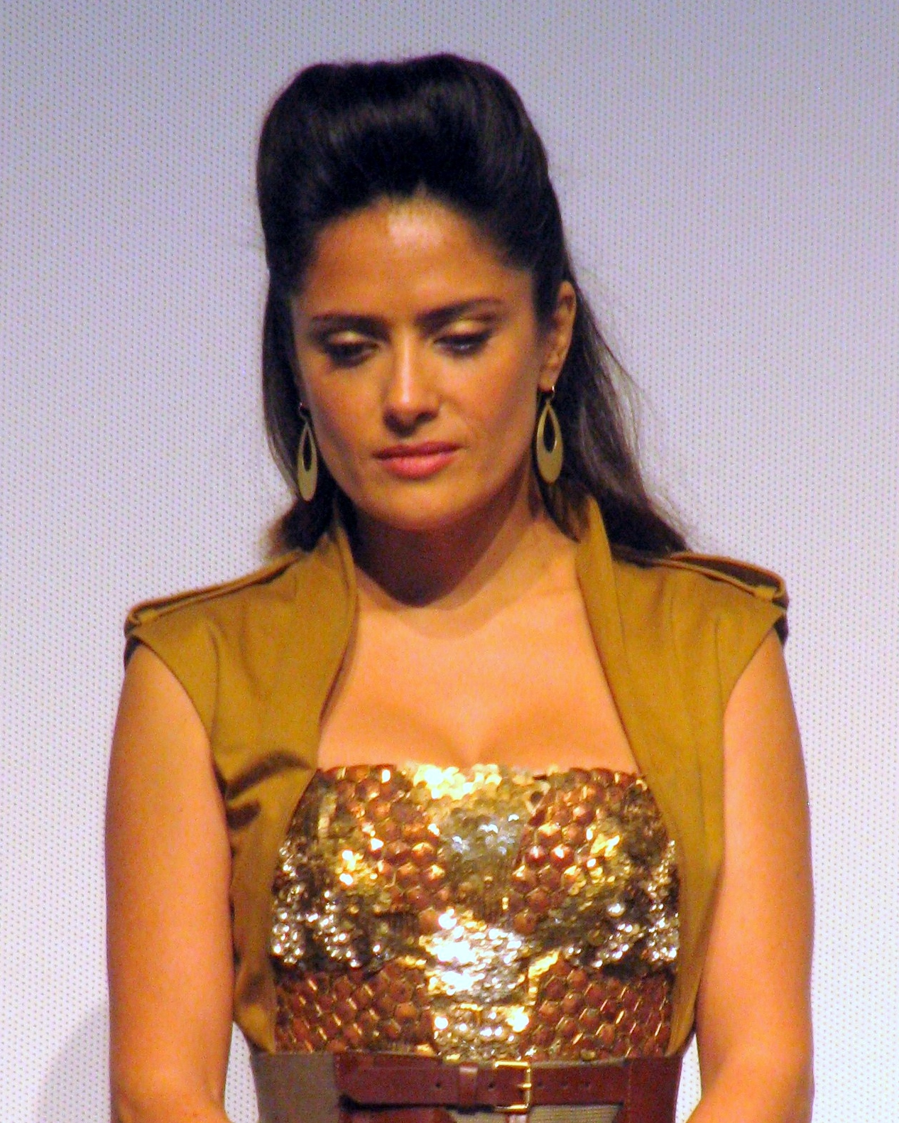 Salma Hayek at the Toronto International Film Festival 2011.